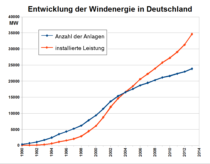 Installed wind power in Germany in MW (red) and number of wind turbines (blue). The crossover is caused because prior to 2000 the average installed turbine size was under 1 MW, and over 1 MW since.